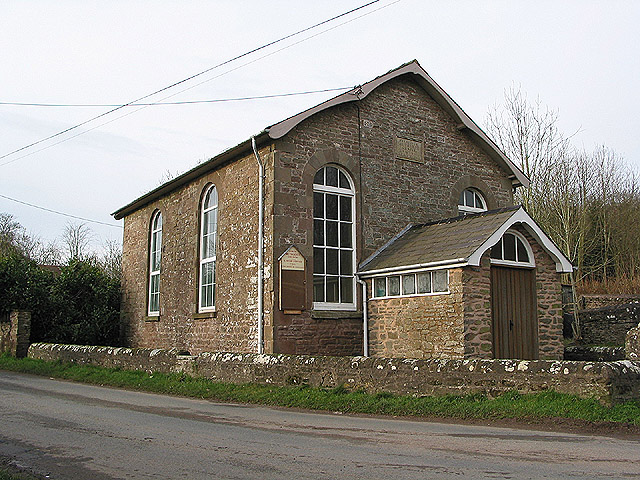 Birch Methodist Church The stone inscriptions tells us it was the Primitive Methodist Chapel.